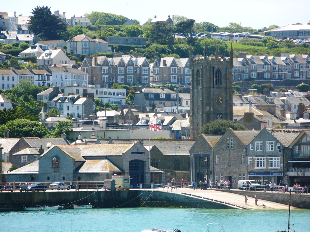 St Ives, Cornwall. The town is built up the hill behind the harbour, lifeboat station and parish church.